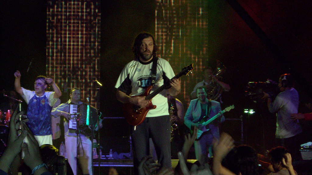 Emir Kusturica & The No Smoking Orchestra